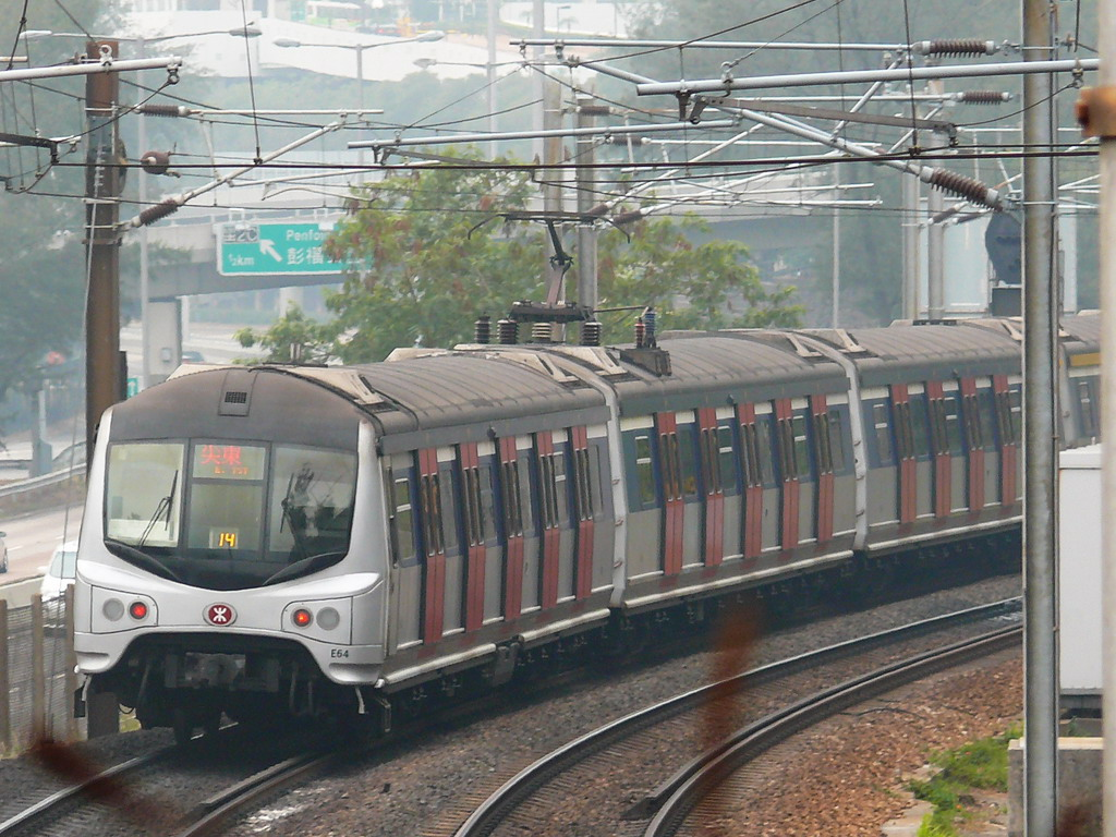 Hong Kong East Rail Line Trains